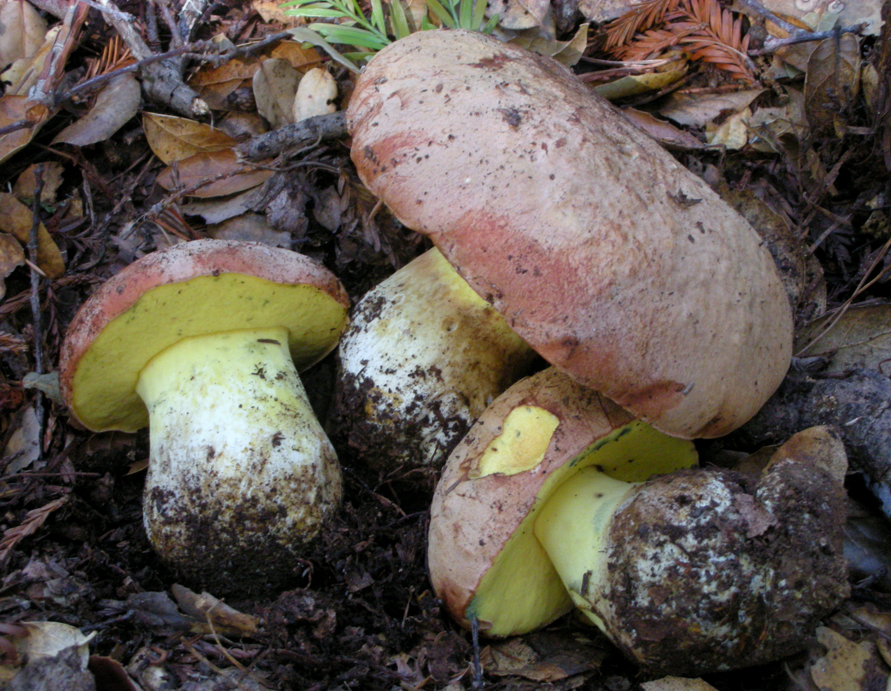 Boletus appendiculatus Schaeff. Image location: Bon Tempe Reservoir, Marin Co., California, USA Recognized by sight For more information about this, see the observation page at Mushroom Observer.